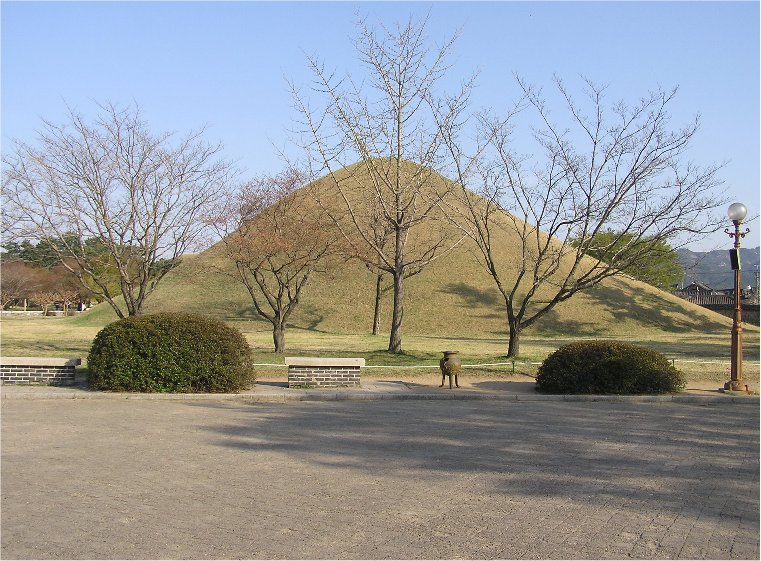 The Heavenly Horse Tomb.